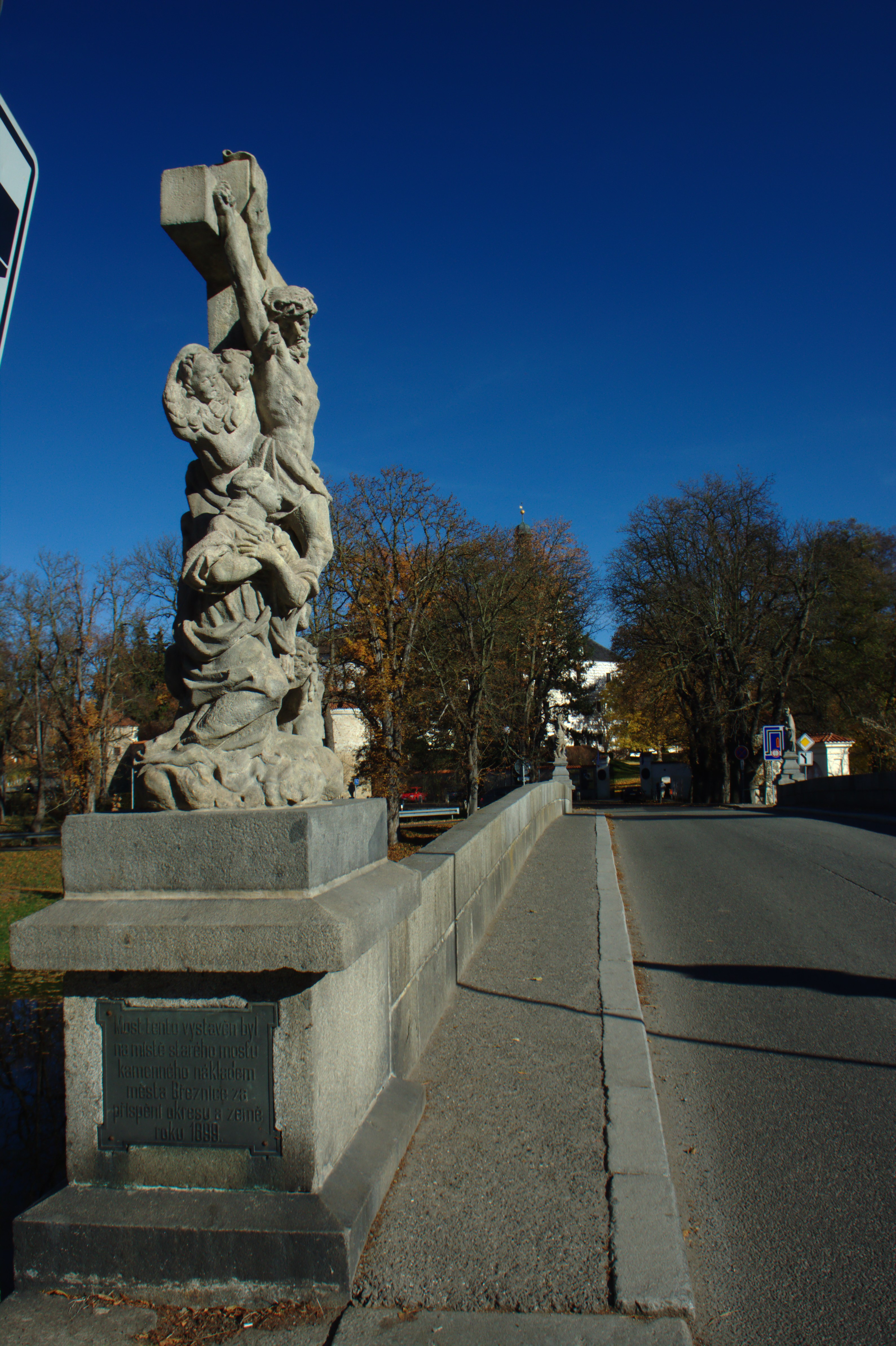 A bridge in Březnice over the Skalice River, Central Bohemia, CZ